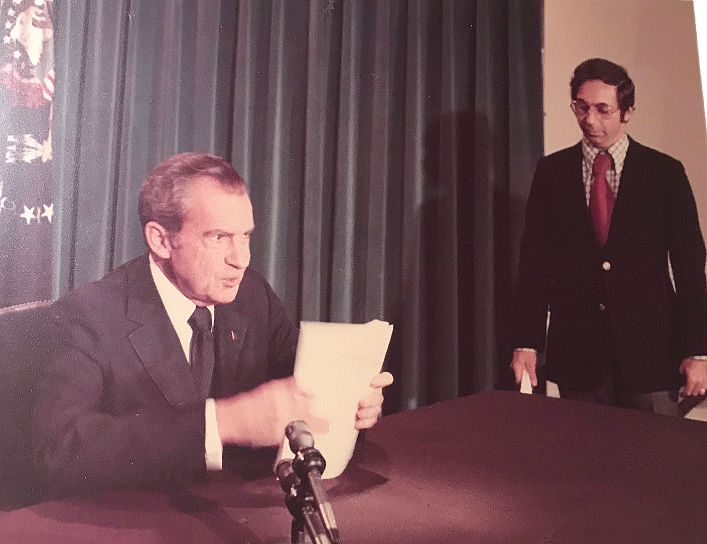 White House Deputy Special Assistant Alvin Snyder with President Richard Nixon before his resignation speech in 1974